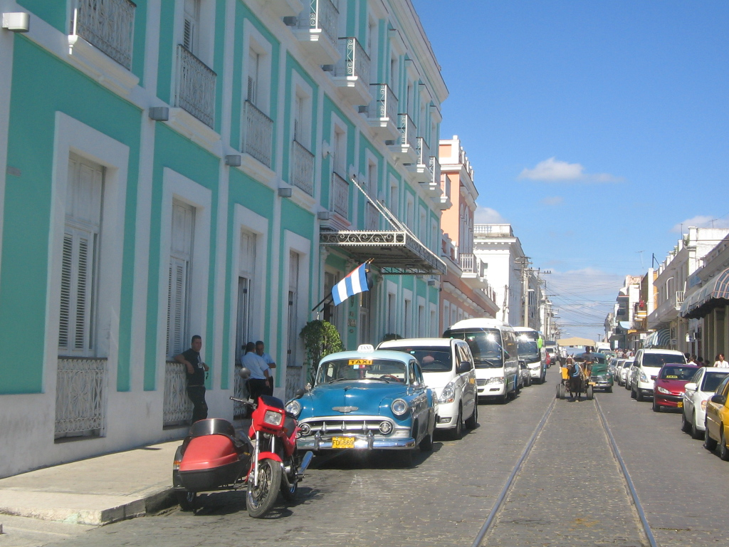 A view of the central Calle D'Clouet in Cienfuegos, Cuba. On the left side the "Hotel La Unión", in the middle of the street the railtrack remains of the former urban tramway.